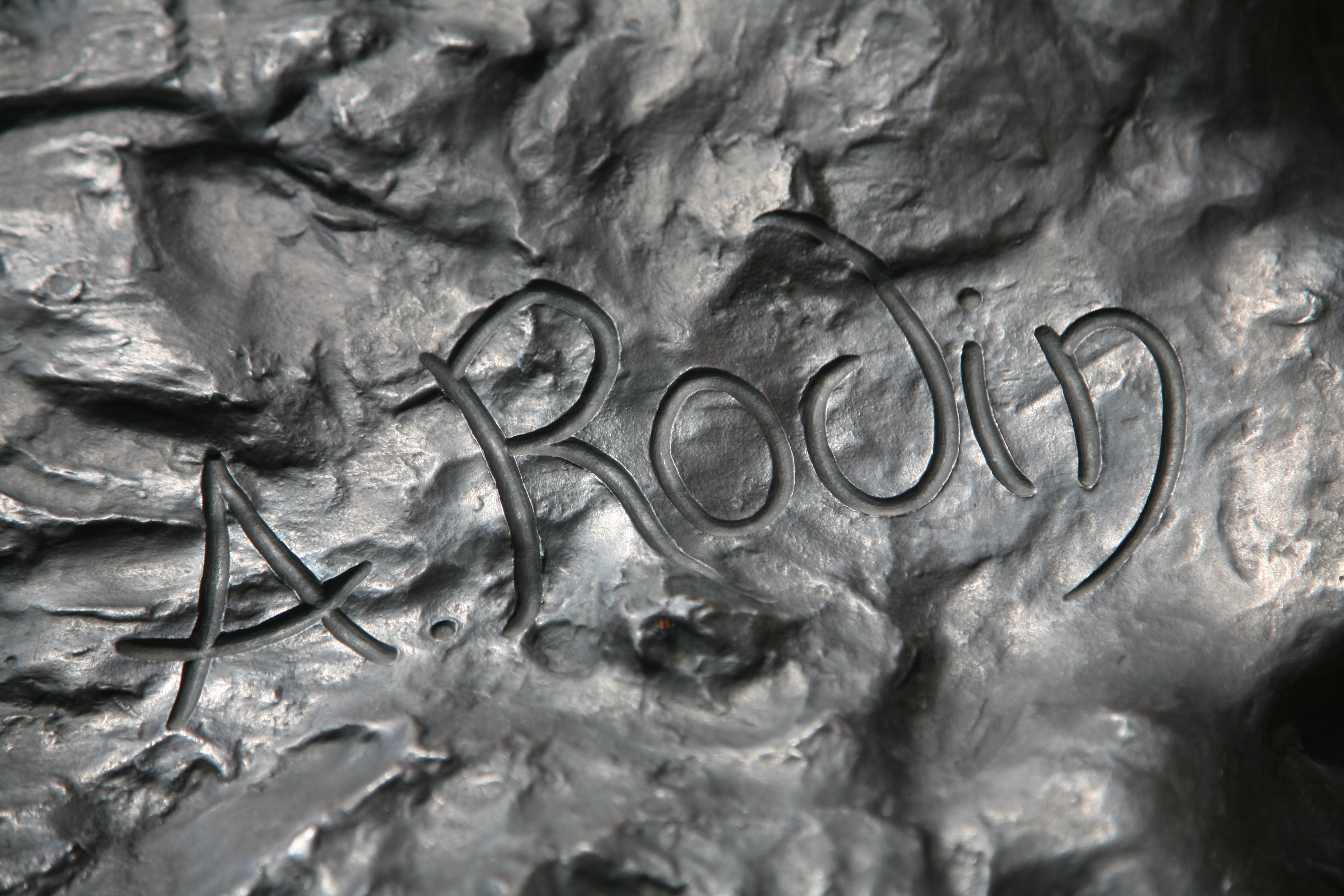 Signature of Auguste Rodin (1840-1917) on The Thinker.